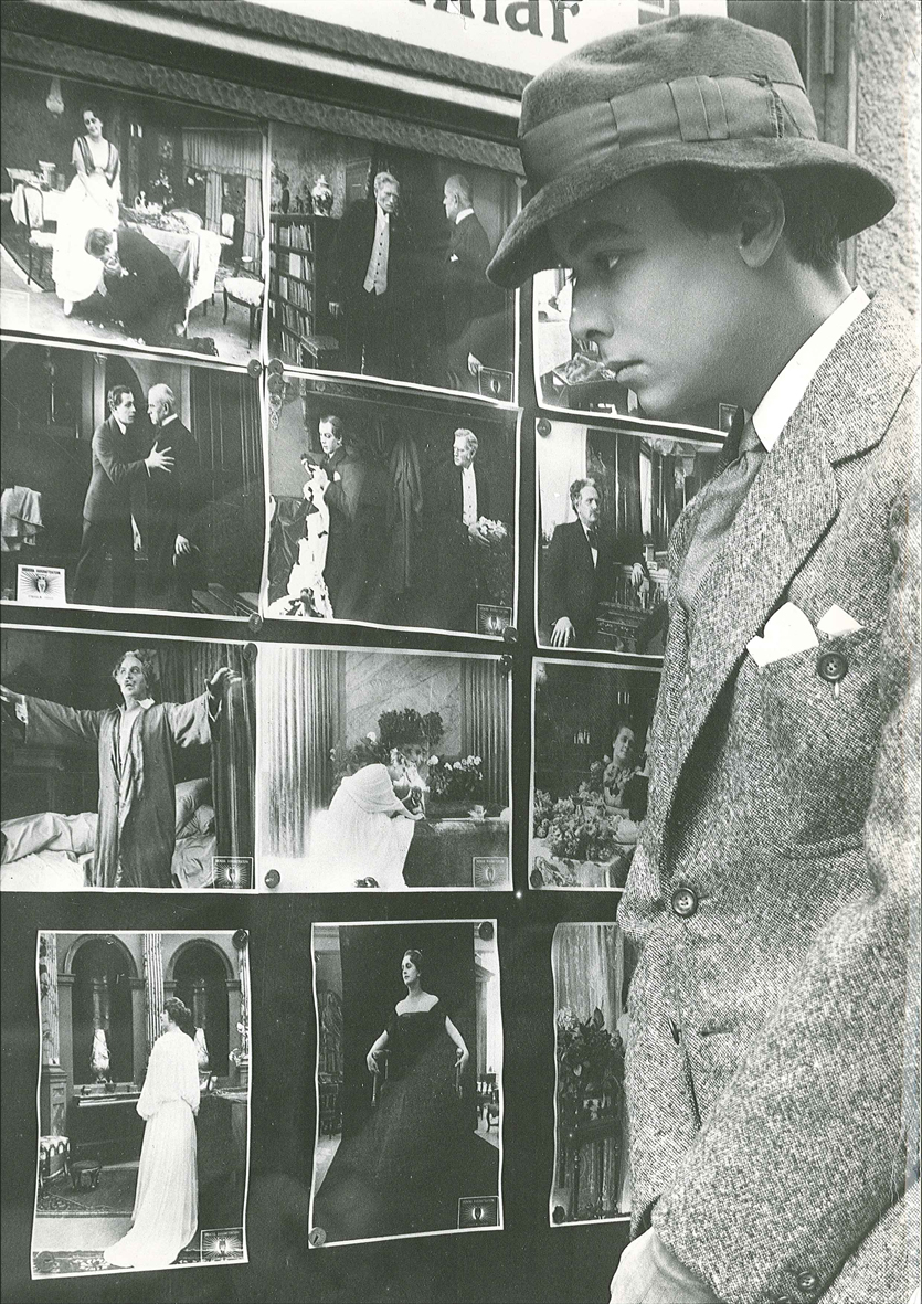 Nils Asther (1897-1981), Danish-born Swedish stage and film actor, partly active in Hollywood. Seen here in a still from his film debut in the 1916 Swedish film The Wings (film) directed by Mauritz Stiller.